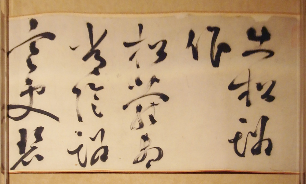 Classical poem in cursive script, by Wang Wen Ming Dynasty (A.D. 1368 - 1644) Born in Wuxi, Jiangsu province, Wang was an official known for his poetry, painting, and calligraphy. The cursive script used here shows his skill in presenting the style in a graceful, but forceful way. There are two seals at the bottom, and the seal of his studio "Shiyin" is at the top.